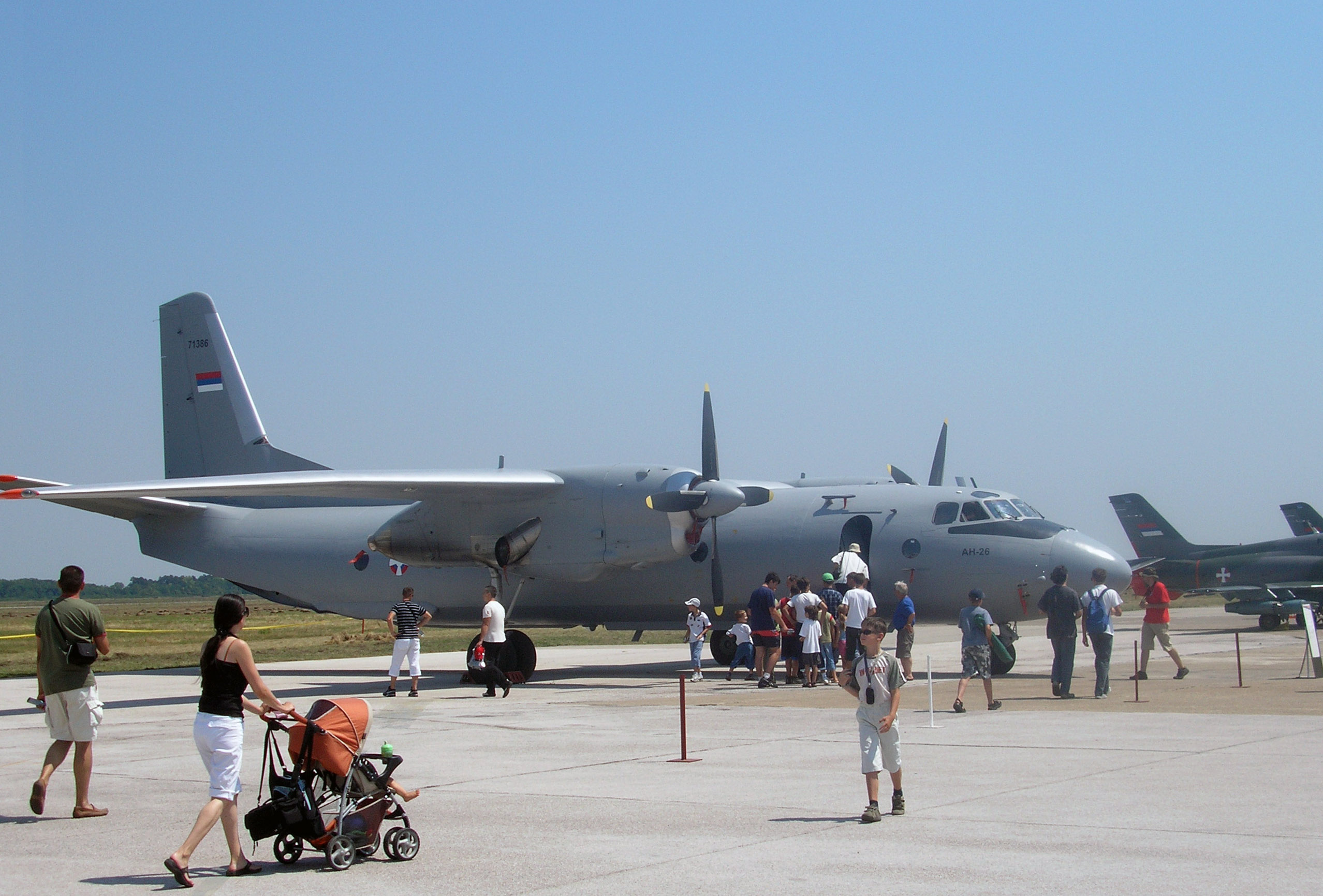 Modernized An-26 No.71386 of 138. Mixed-Transport-Aviation Squadron, 204th Air Base of Serbian Air Force, on display at Batajnica airbase during the Saint Elijah, the Aviation Day in Serbia. The aircraft is unlike the other An-26s of Serbian Air Force painted only in gray.